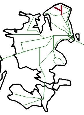 Map of railways on Zealand (Sjælland) in Denmark with the private railway Gribskovbanen between Hillerød, Kagerup and Gilleleje/Tisvildeleje in brown.